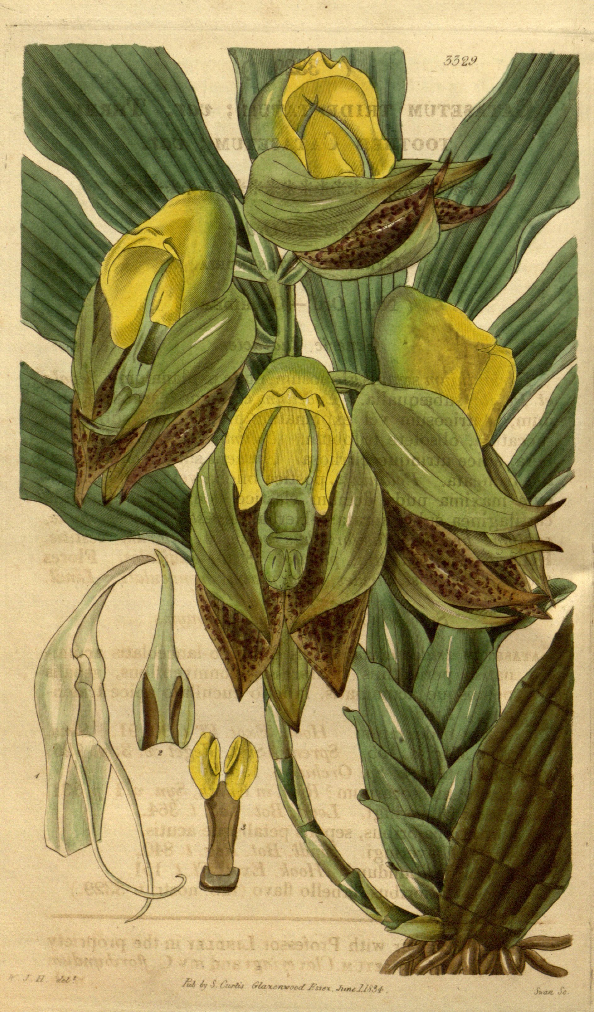 Illustration of Catasetum macrocarpum